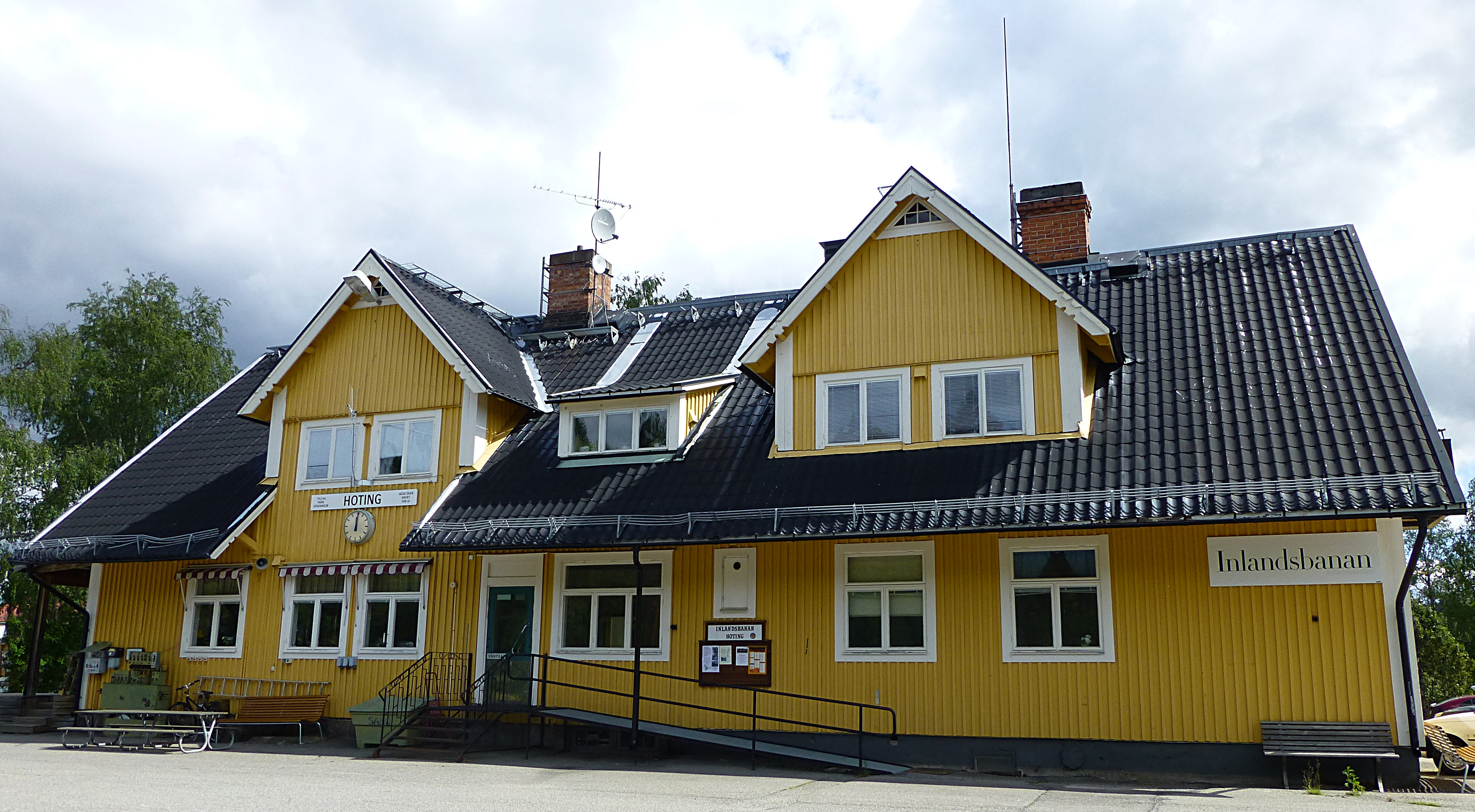 Hoting station, rail side.